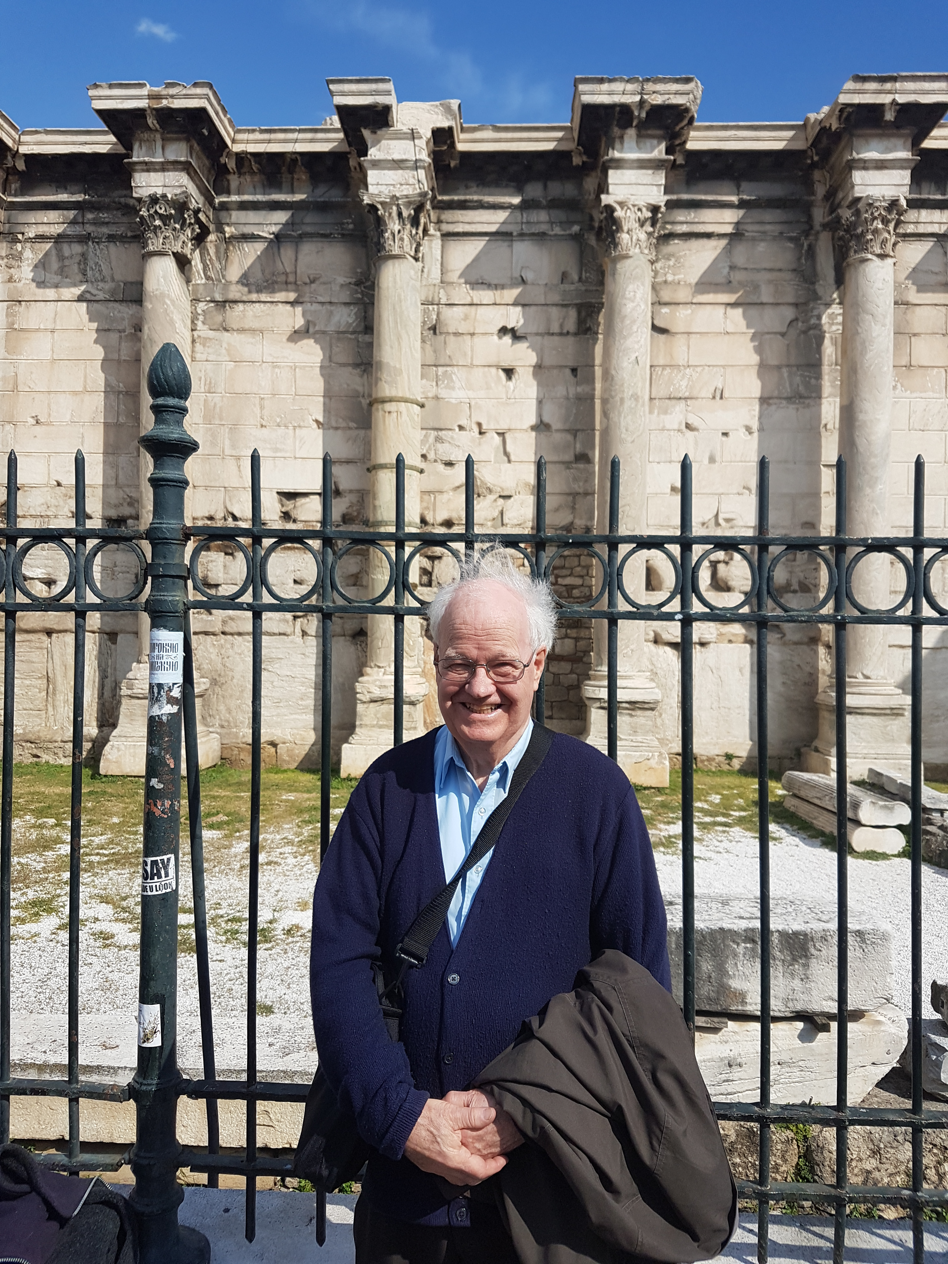 John S. Traill at Hadrian's library, in Athens